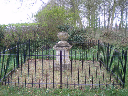 Picture of the Duel Stone at Cawston, which commemorates the last duel to be fought in Norfolk.